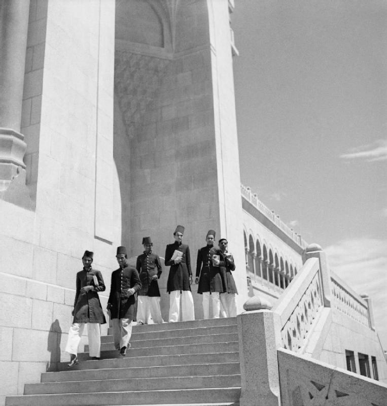 Hyderabad City Students leaving the Osmania University by the imposing main entrance